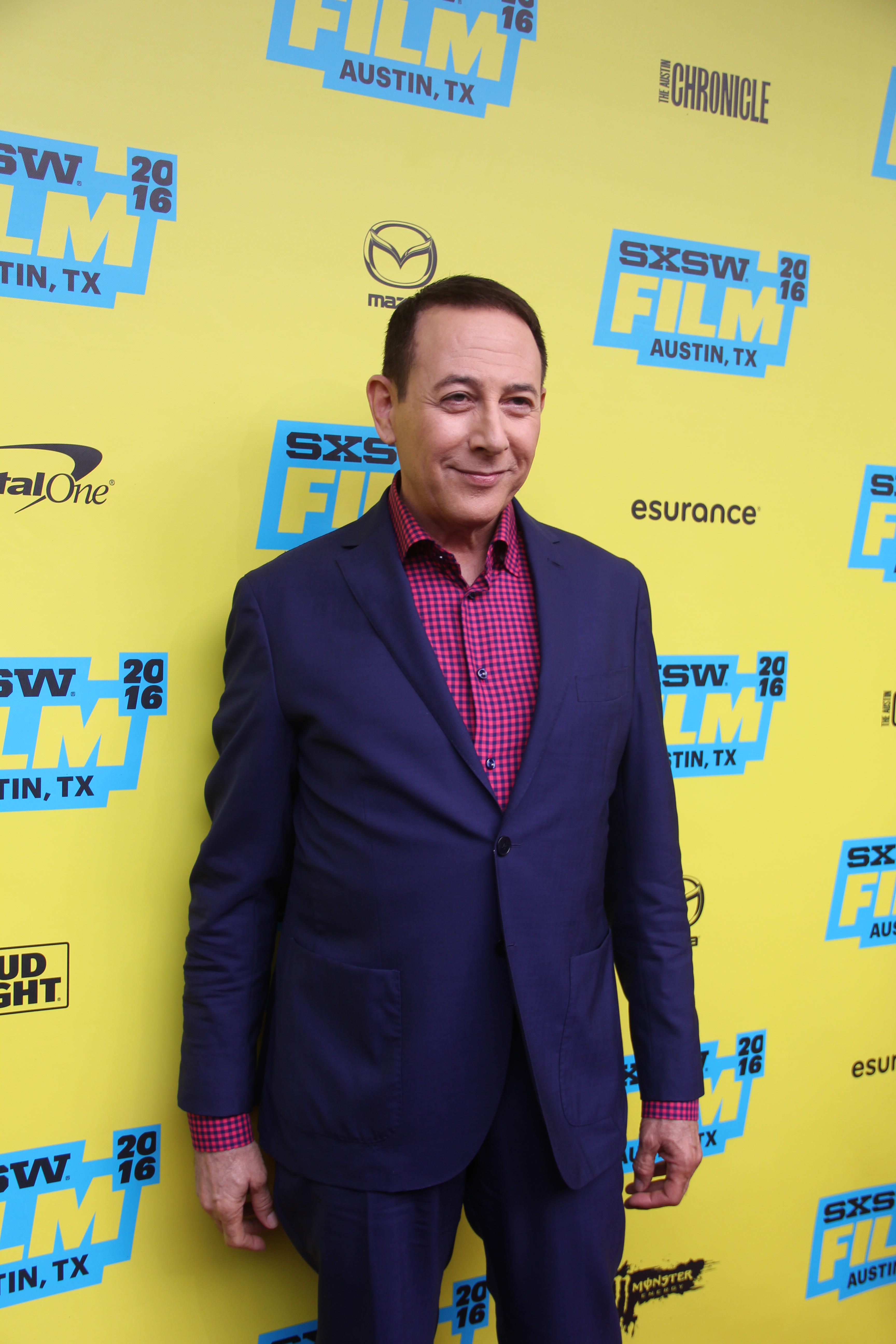 Paul Reubens at the premiere of Pee-Wee's Big Holiday. Taken at SXSW 2016.